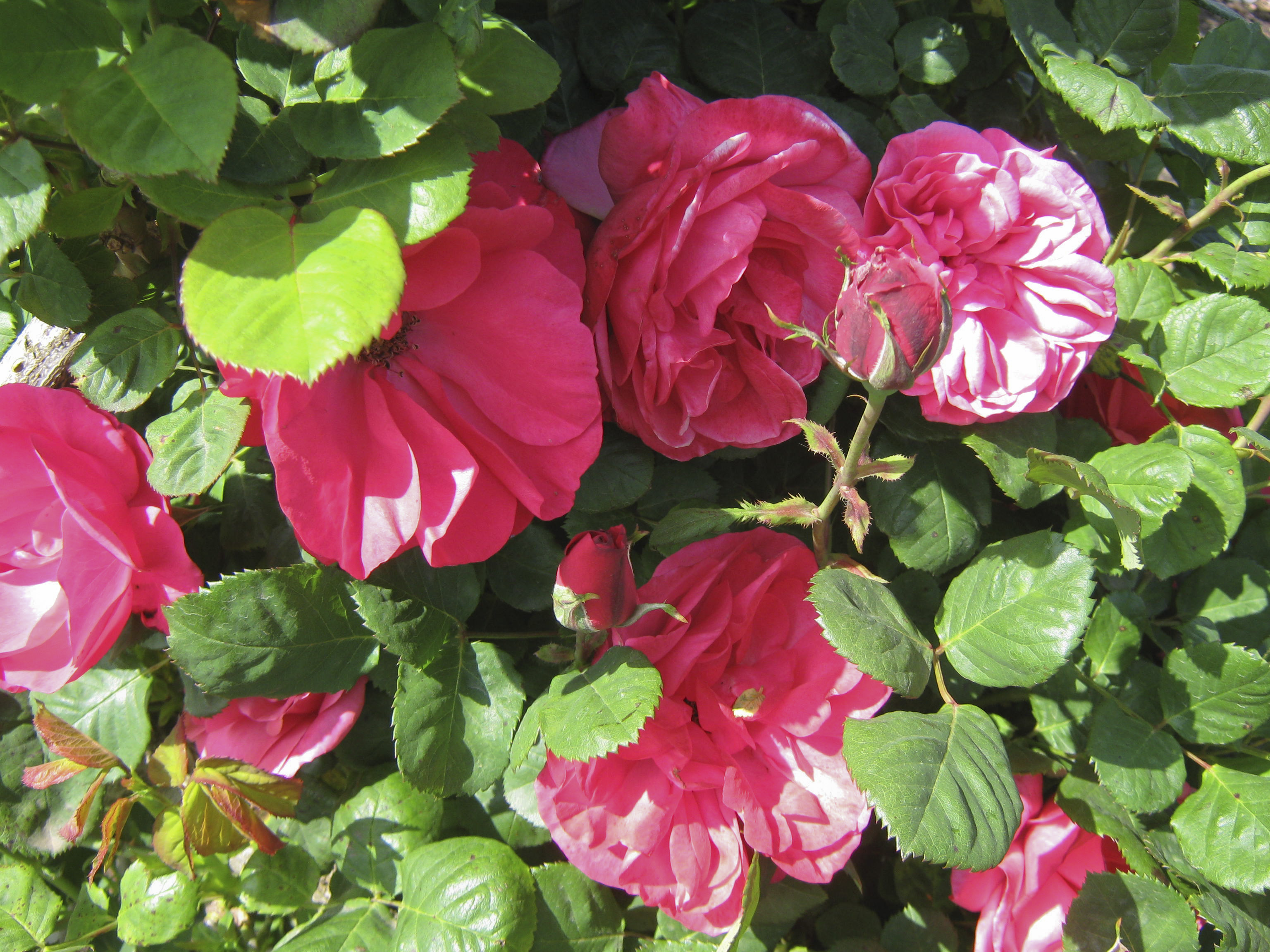 Rose Titian by Riethmuller 1950